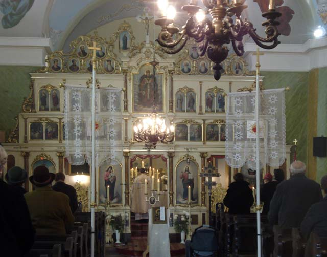 Greek Catholic church inside, Miskolc-Görömböly, Hungary